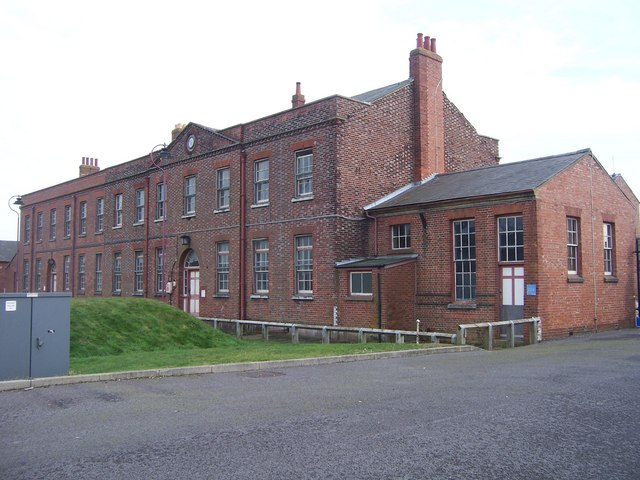 Disused building at Priddys Hard This handsome building is currently disused at Priddy's hard. Not sure what it was, possibly officer's or official's houses. It looks in quite fair condition at the present. Unless anyone knows different. It is part of an area scheduled for redevelopment, but the scheme is currently on hold due to the present financial situation.